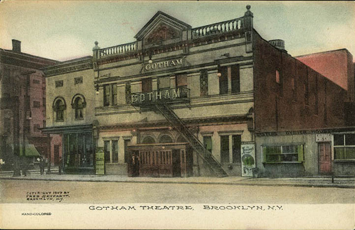 Hand-colored postcard of the Gotham Theatre, Brooklyn, NY